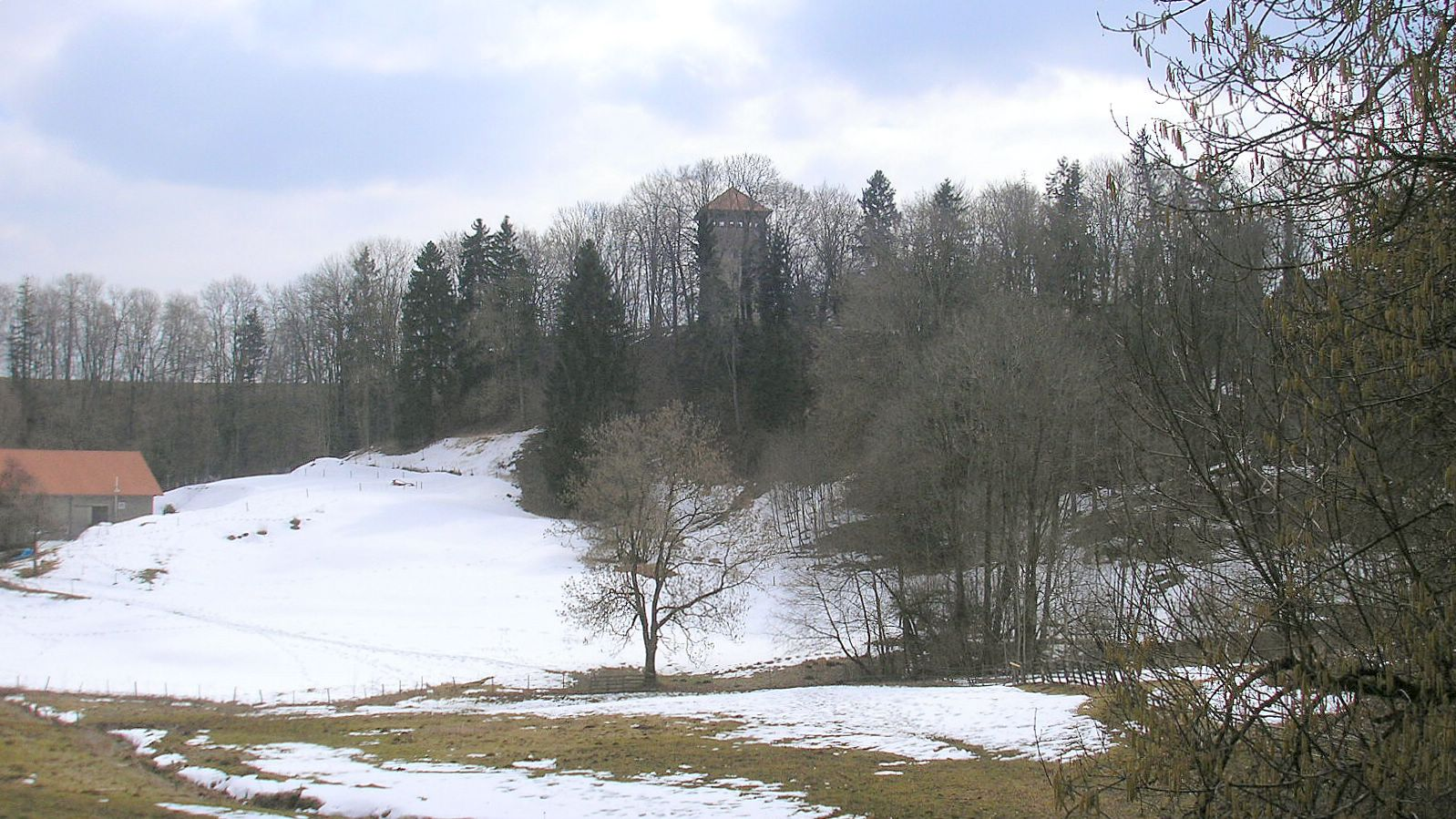 Kemnat castle (Kleinkemnat, Stadt Kaufbeuren, Allgäu, Bavaria). The central castle, seen from the north